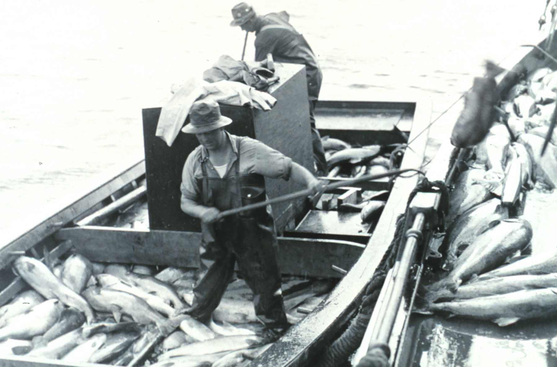 Knee-deep in salmon. Salmon being transferred to a large boat on which they are iced and hauled to a cannery. Southeast Alaska. F&W 12,935.